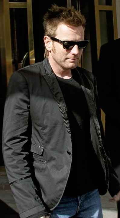 Ewan McGregor at the 2007 Toronto International Film Festival